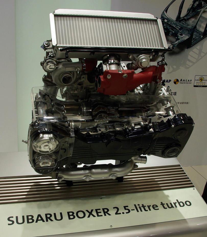 Subaru EJ257 2.5 litre, turbocharged boxer-four engine at the 2011 Shenzhen-Hong Kong-Macau International Auto Show.